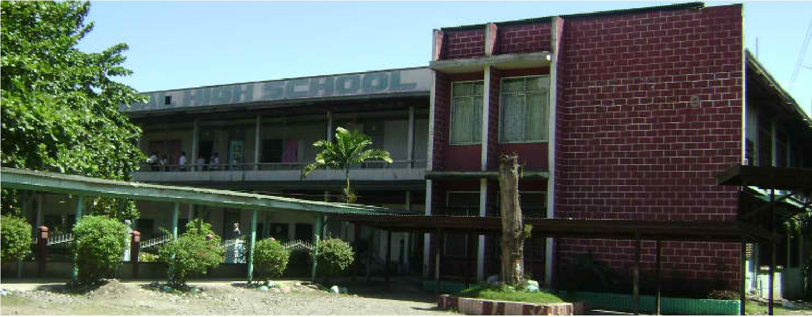 This photo is the facade of DiCNHS Main building viewed at gate 2.